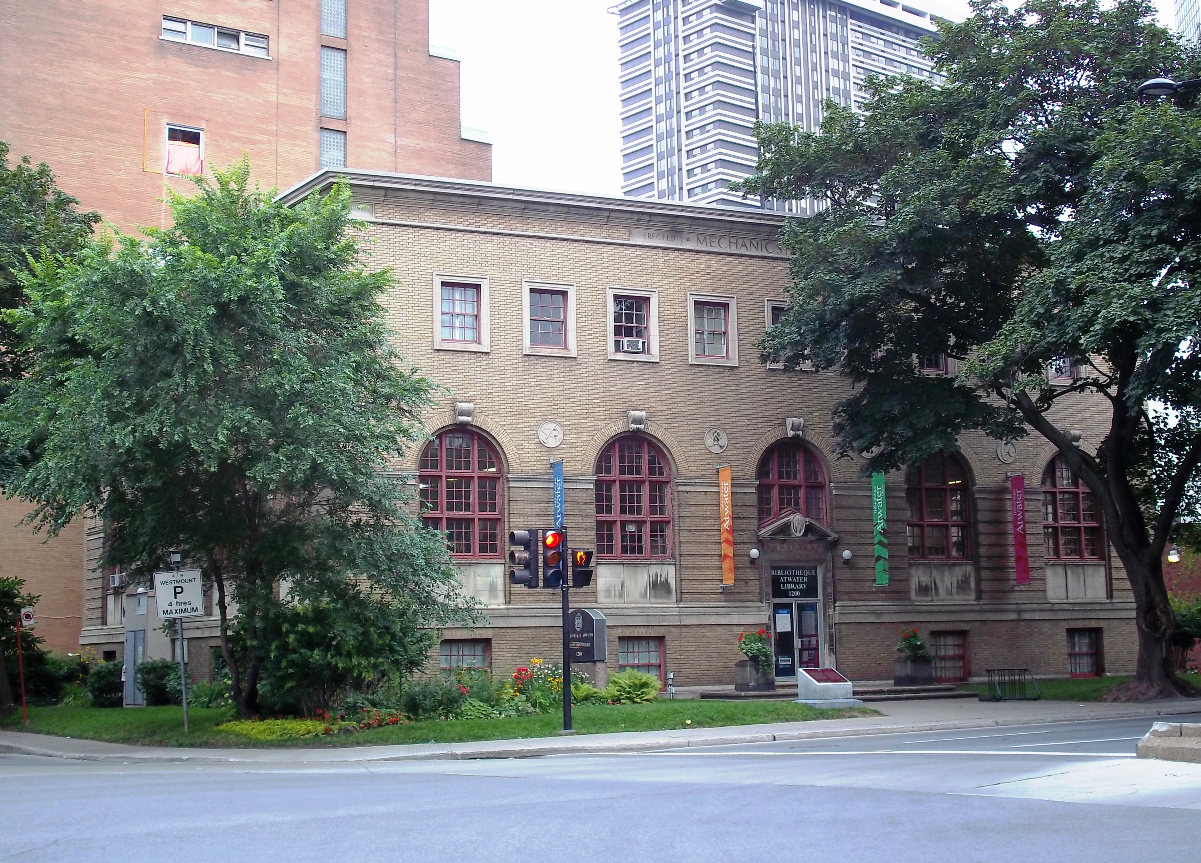 Atwater Library of the Mechanics' Institute of Montreal